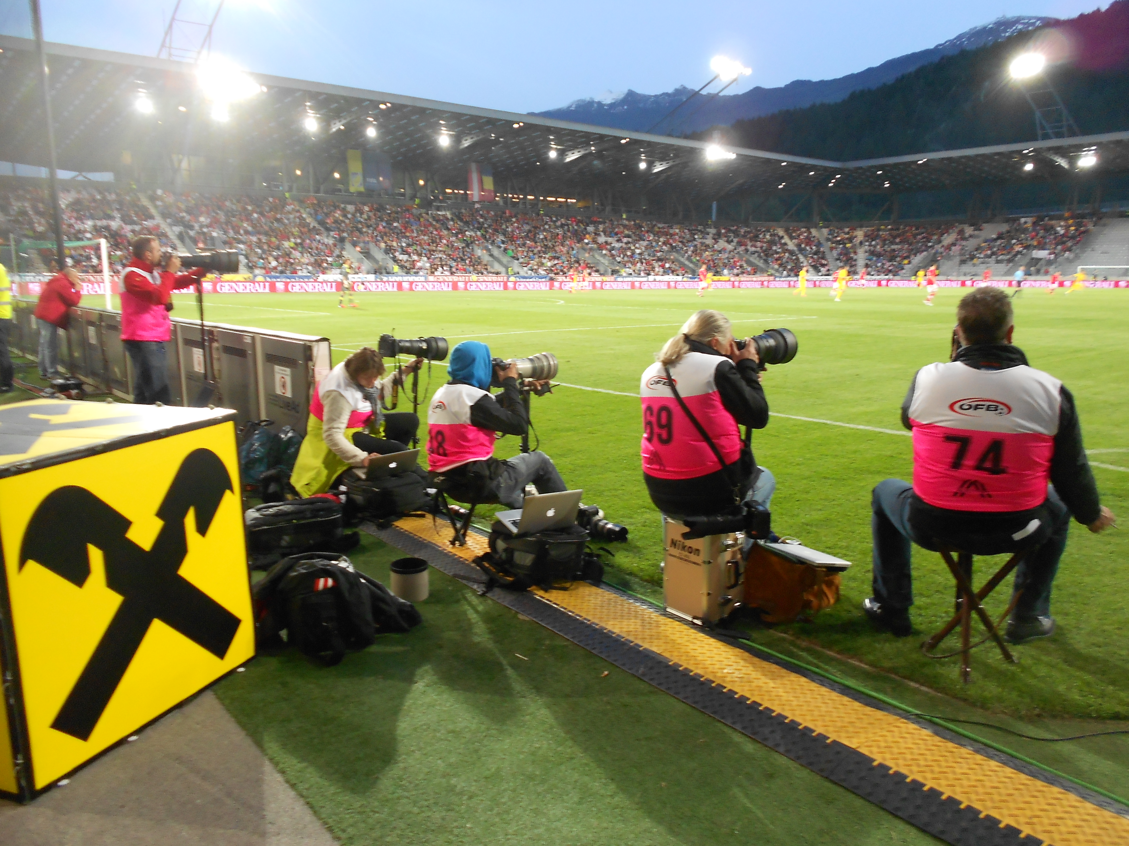 Exhibition game Austria vs. Romania at 5st. June 2012